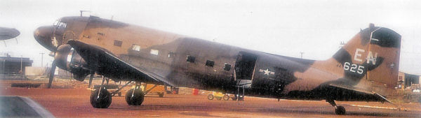 A U.S. Air Force Douglas AC-47D Spooky gunship (s/n 44-76625) of the 4th Special Operations Squadron, 14th Special Operations Wing, at Nha Trang Air Base, South Vietnam, in March 1969.